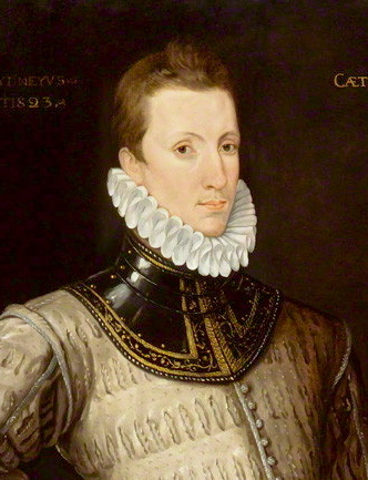 Posthumous portrait of Sir Philip Sidney, possibly by Hieronimo Custodis, after an original attributed to Cornelis Ketel, 1578, at Longleat House. See Strong, 1990.